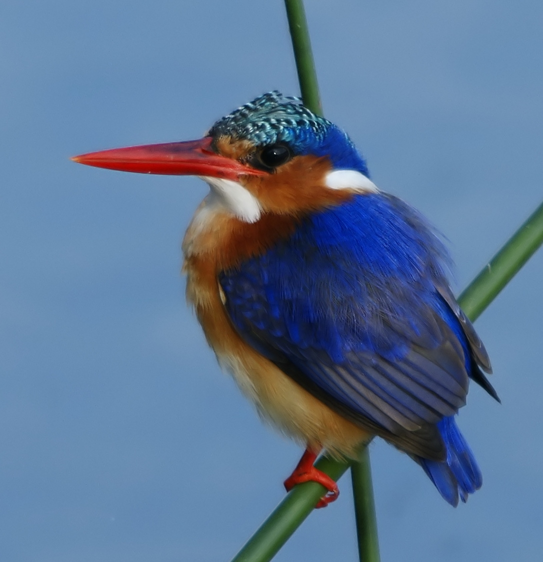 Malachite Kingfisher (Alcedo cristata) close to the Kafue river near Kafue, Zambia.